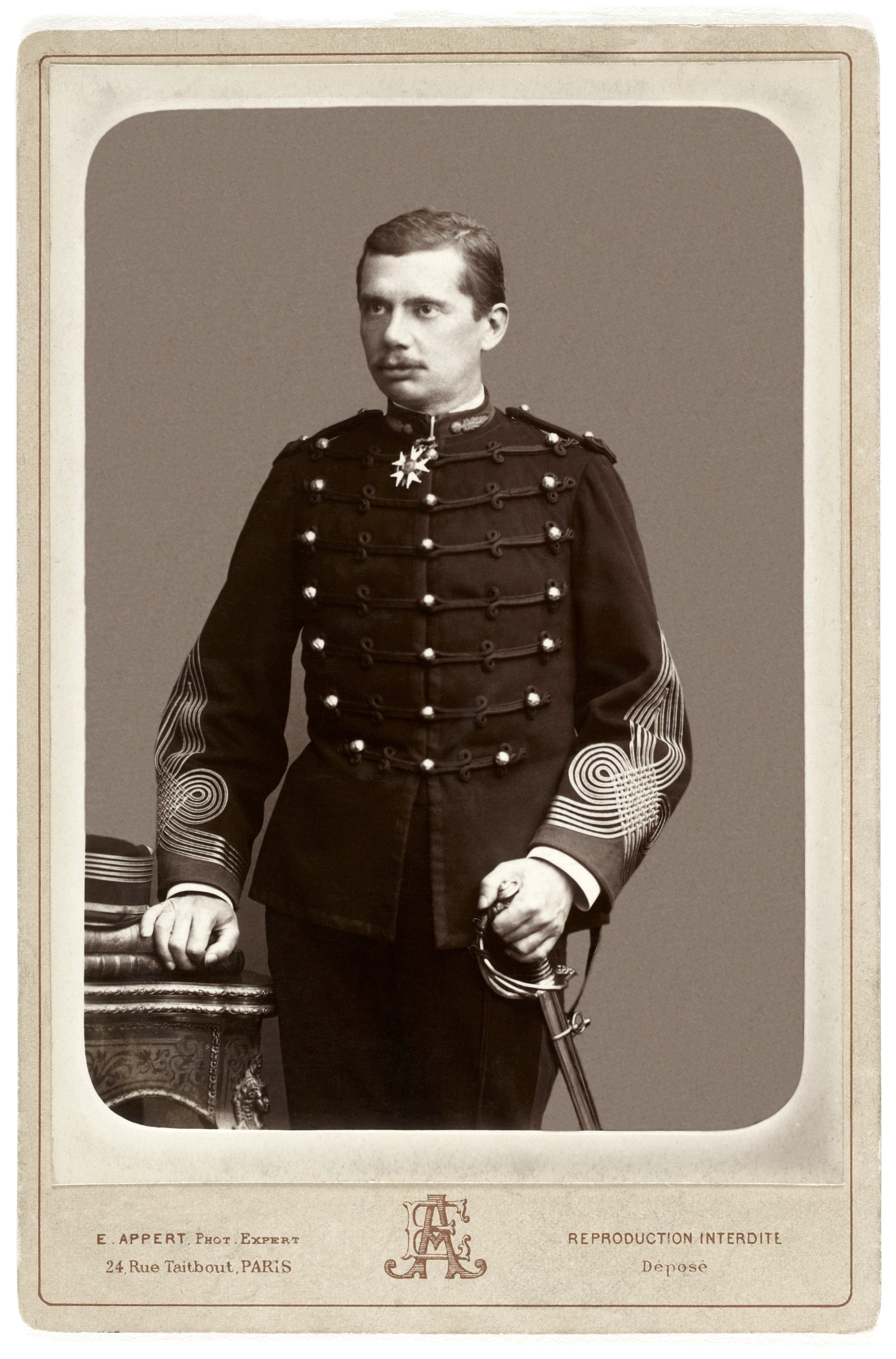 Gustave Borgnis-Desbordes (1839 - 1900), french officer and explorer (Cochinchina and french Sudan).